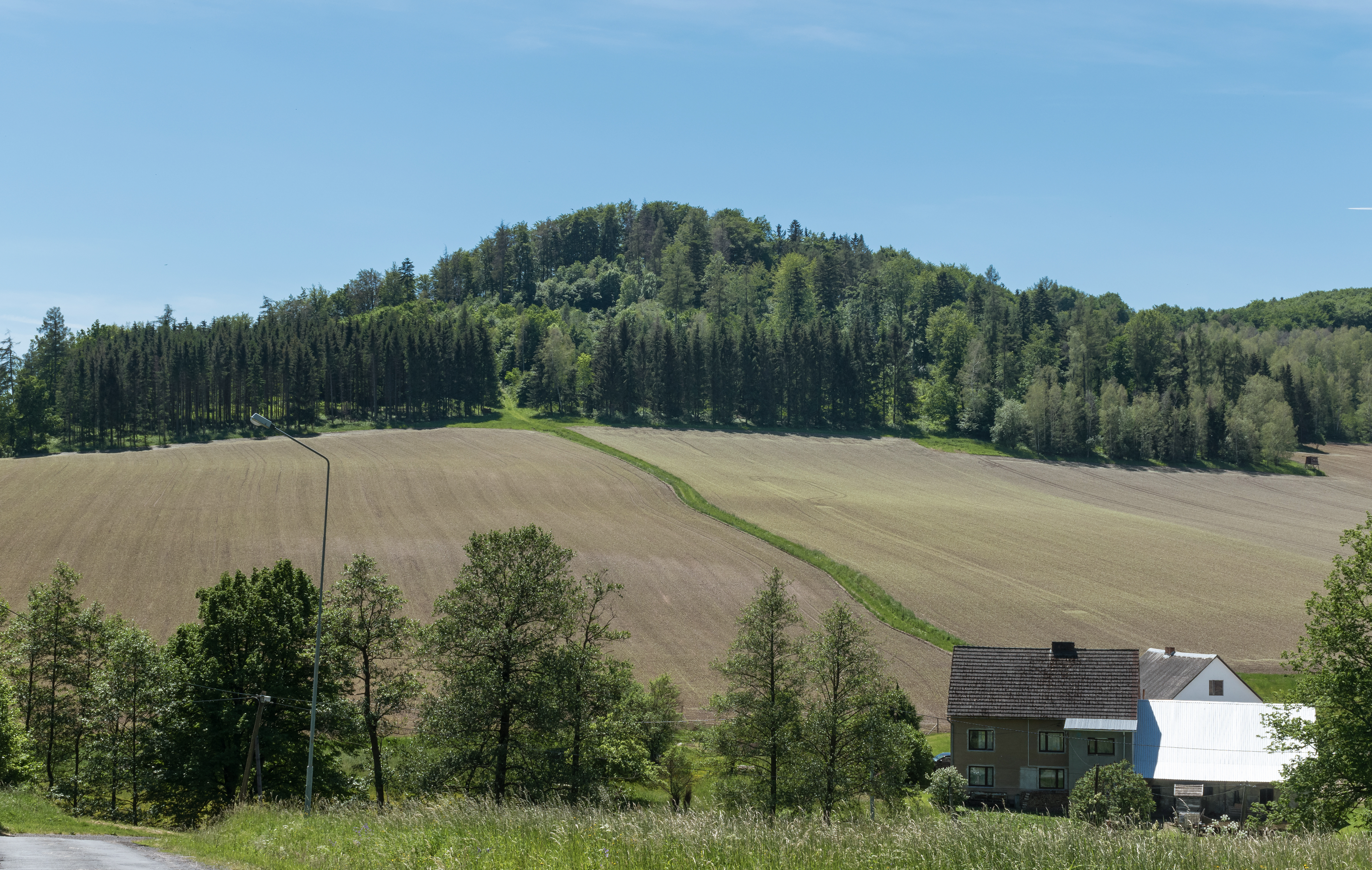 Kamiennik, Krowiarki, Sudetes